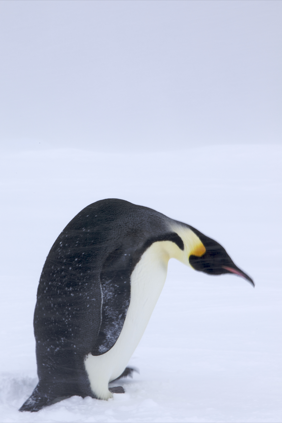 An Emperor Penguin in a snow storm in Antarctica.